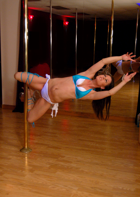 Demonstrating a knee hold